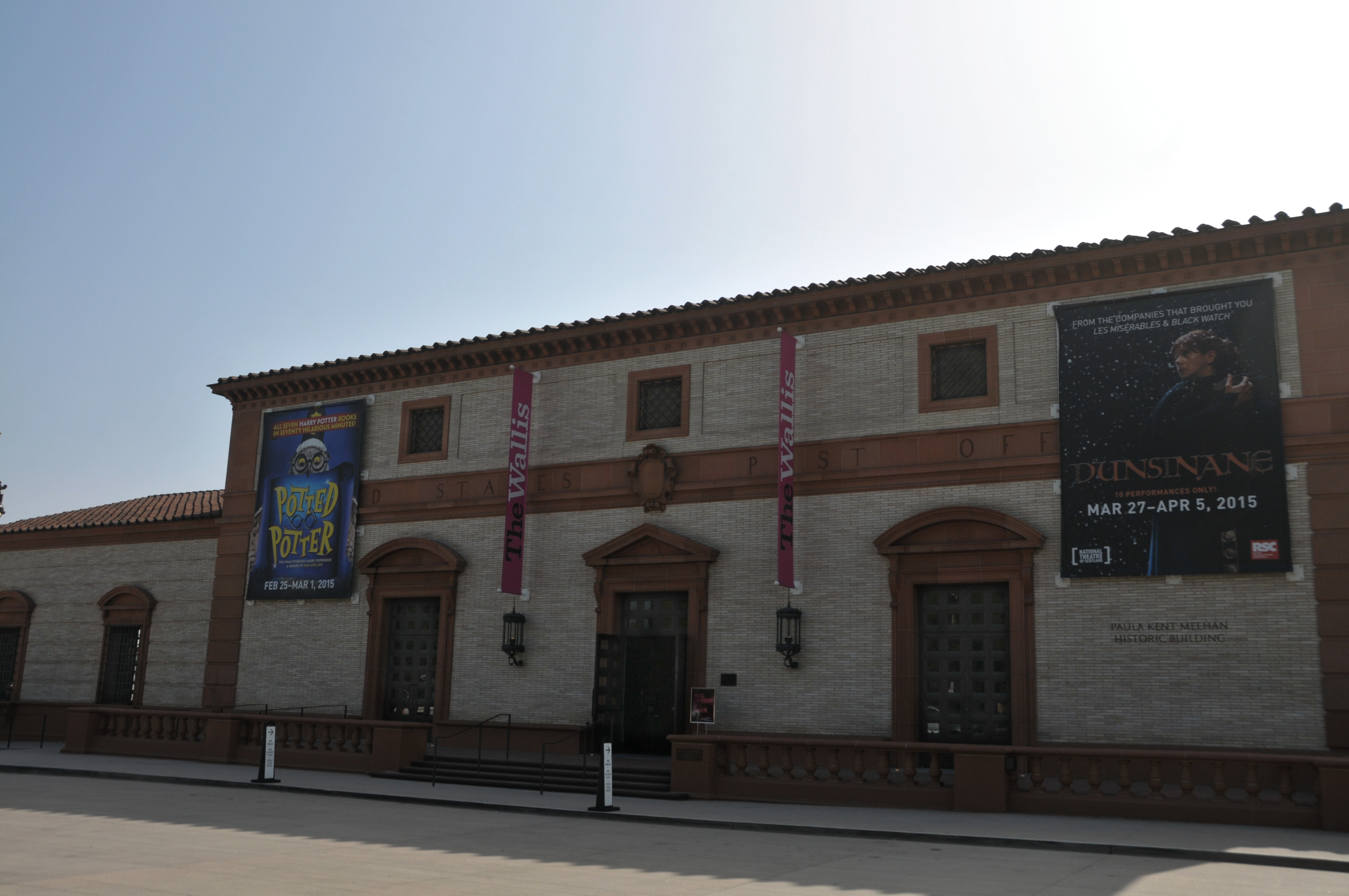 Beverly Hills Post Office, Beverly Hills, California - Photo by Glenn Francis of